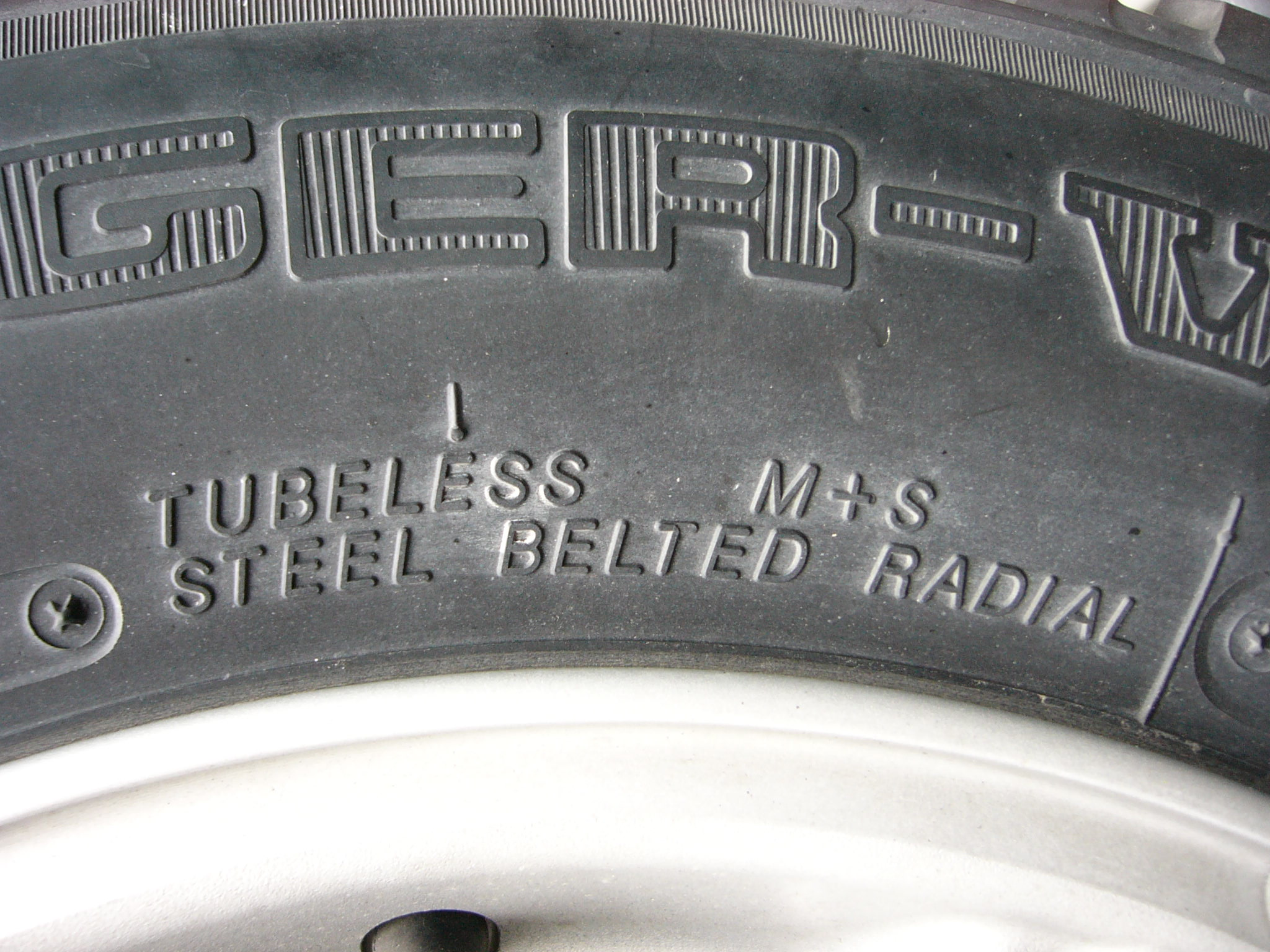 "Mud & Snow"(M+S) described cases in all-season tires. "SuperDigger-V" all-season tires Yokohama Rubber Co., Ltd..